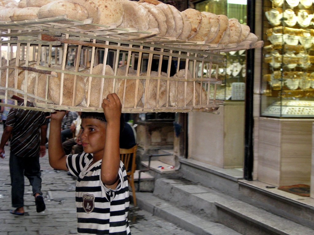 A boy carries a tray of bread on his head.